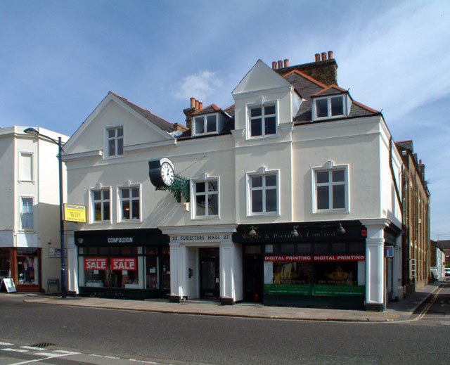 Foresters Hall, Westow Street, Upper Norwood SE19. Westow Street is in the heart of the Upper Norwood Triangle Conservation Area. This building, together with the Orthodox church and a number of local pubs and shops, may be demolished only in very exceptional circumstances.